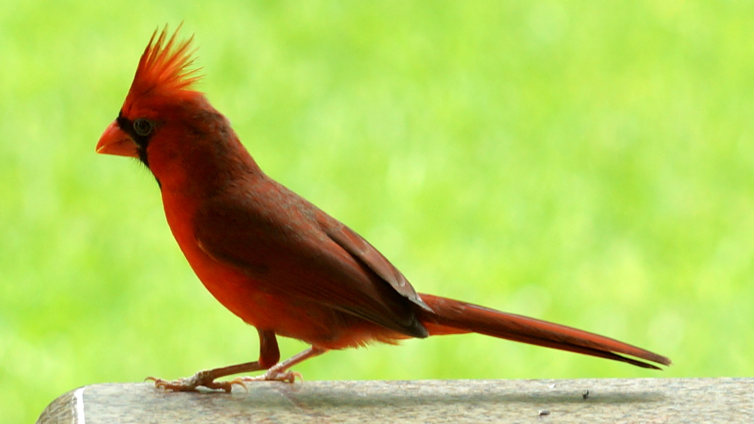 Cardinalis cardinalis